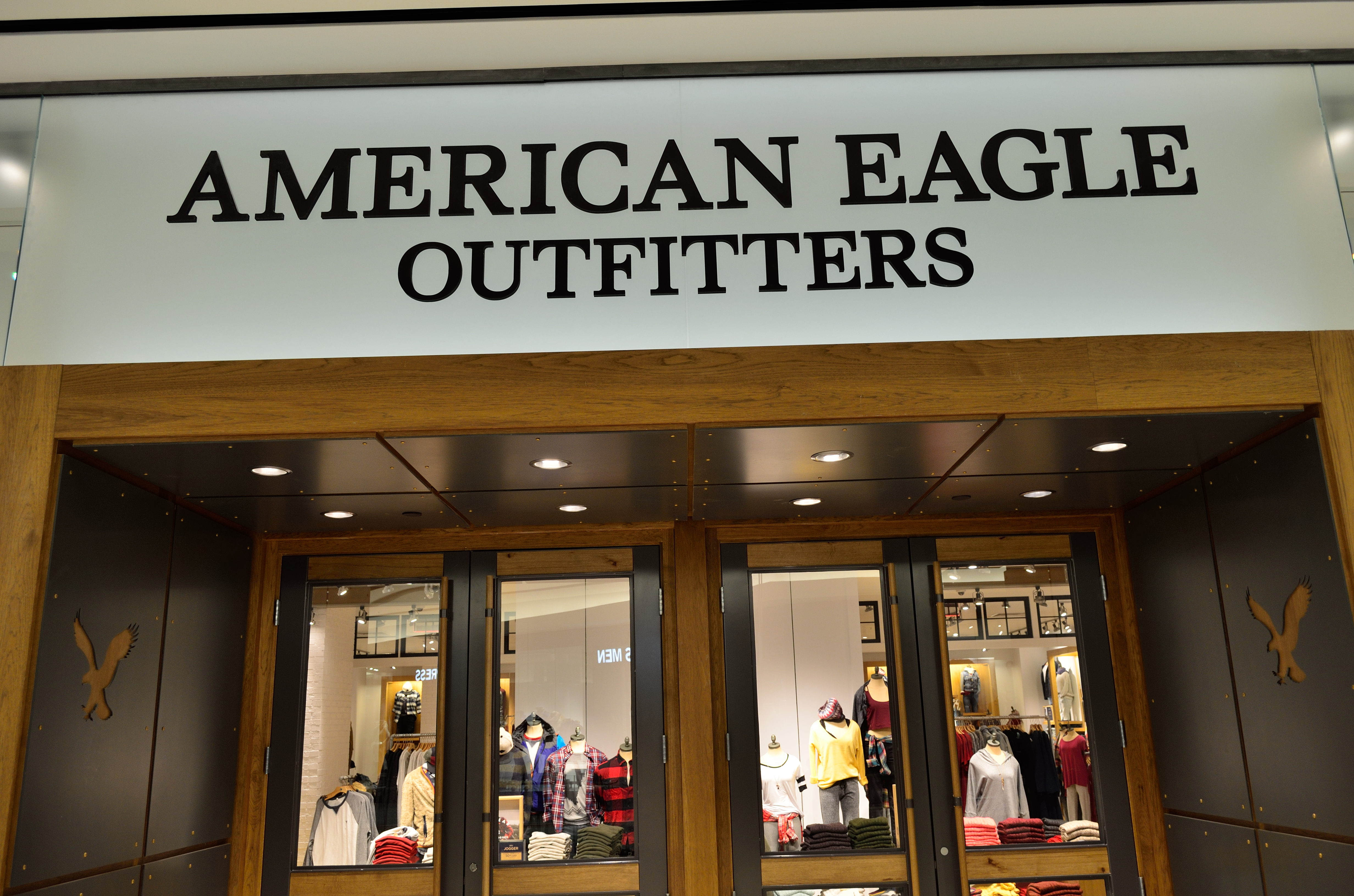 American Eagle Outfitters at Markville Mall